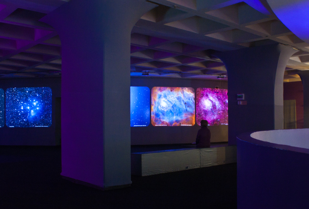 The Kiev Planetarium interior.